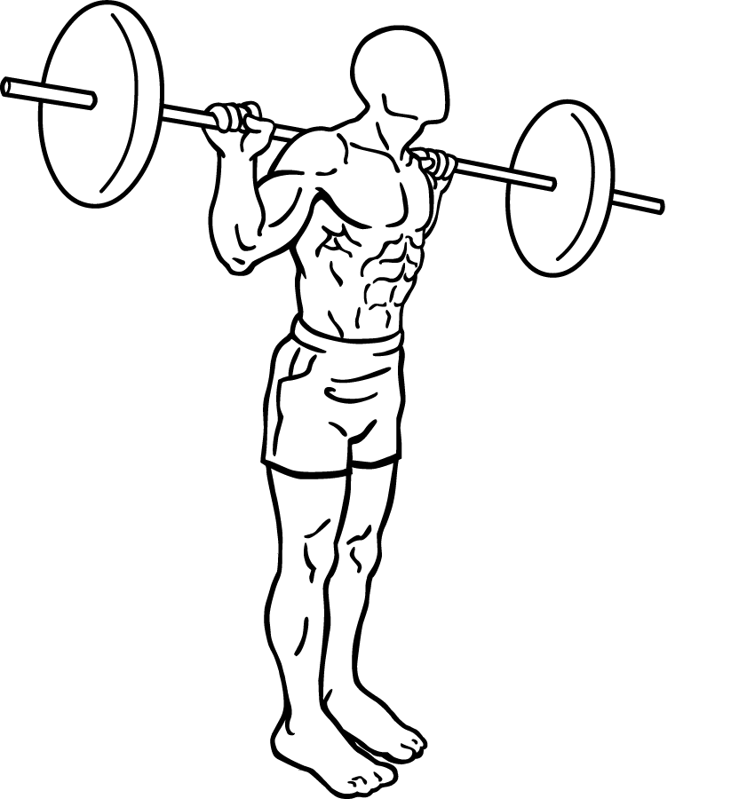 an exercise of lower back